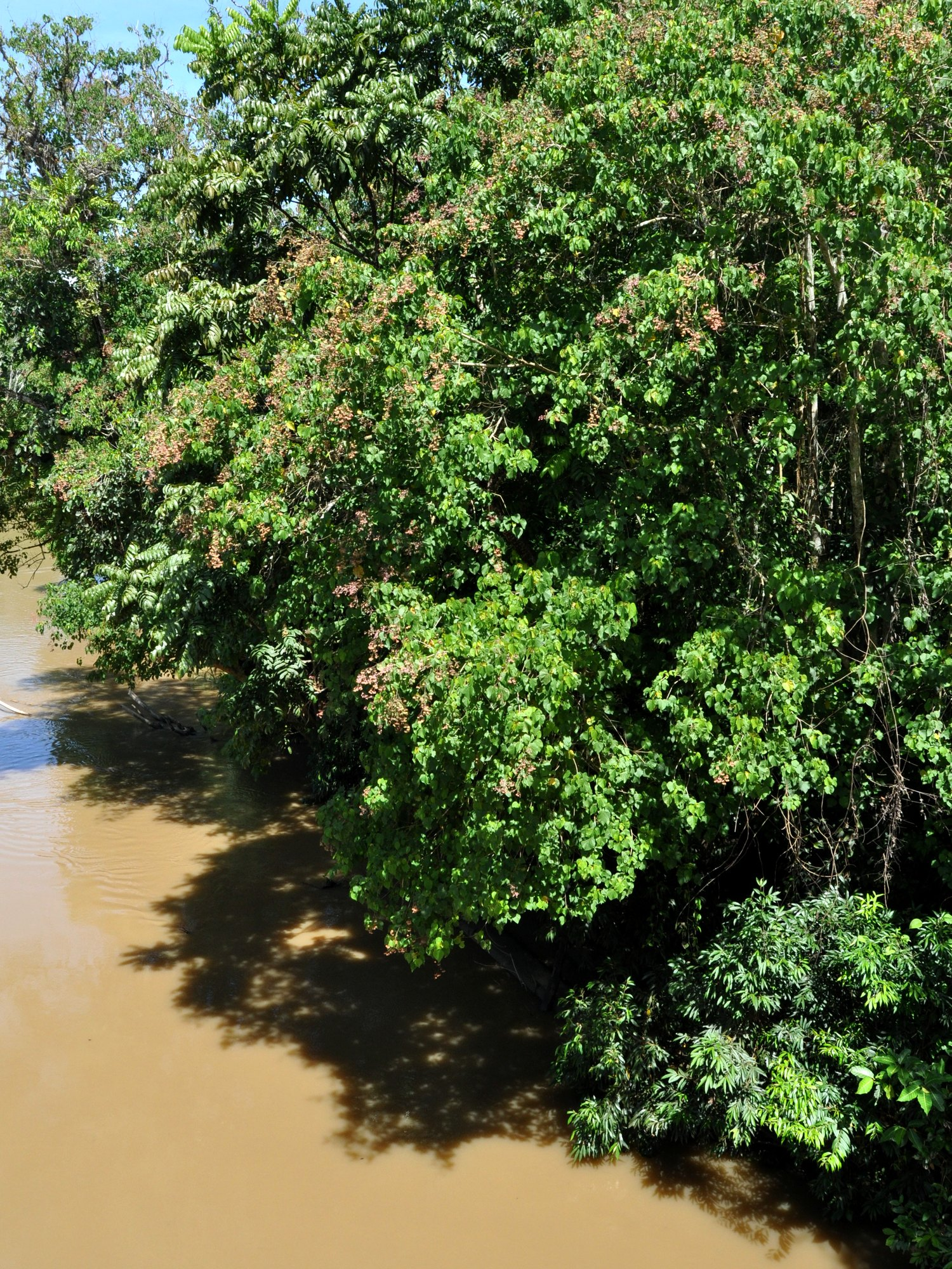 Kleinhovia hospita, habits, at the bank of the River Lesan. Berau Regency, East Kalimantan, Indonesia.